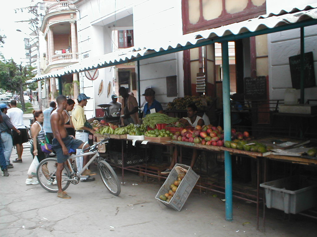 The author of this photograph is me, David Shankbone. October 2002. A Havana fruit and vegetable market. Many Cubans rely on barter and exchange, or on connections with relatives and friends, to obtain the items they need. The system is often referred to as Sociolismo.